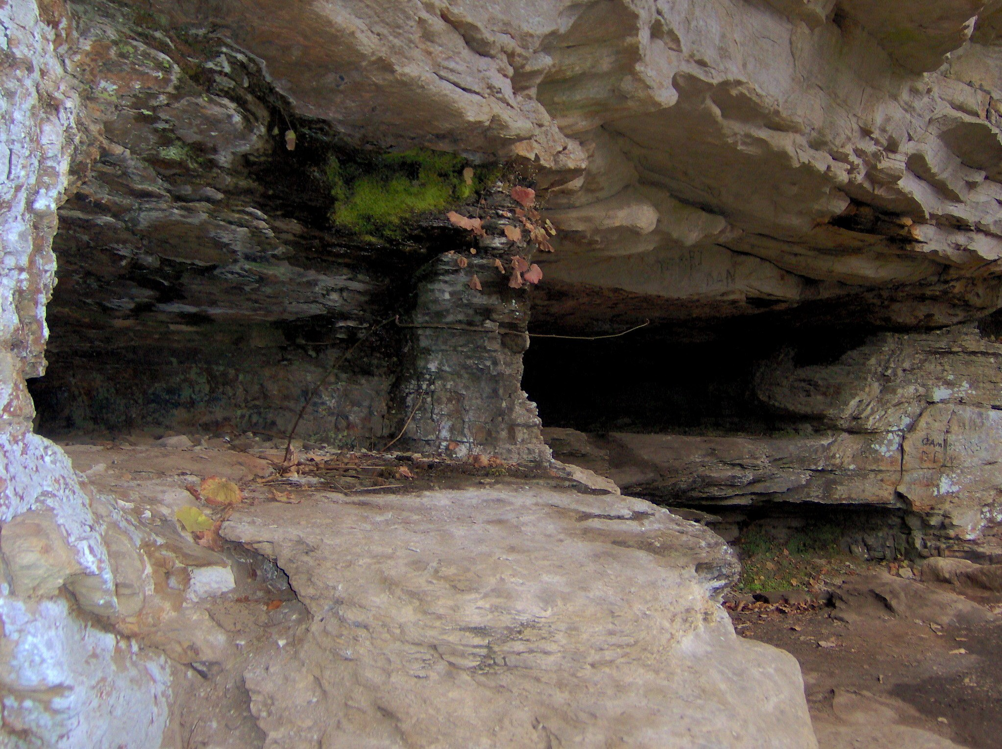 Gambler's Den at Ozone Falls State Natural Area near Ozone, Tennessee, located in the Southeastern United States. This rockhouse is situated along the trail leading from the trailhead to the base of the gorge.